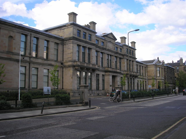 Longmore House The view of the Head Offices of Historic Scotland in Longmore House, which was previously Longmore Hospital